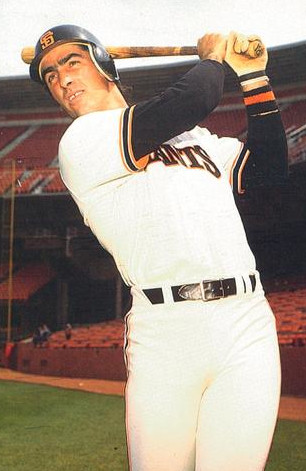 Professional baseball player Jack Clark